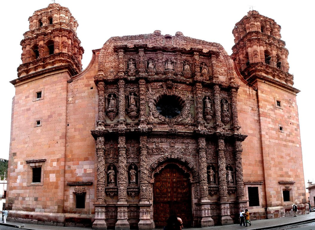 Stone Baroque facade of the Cathedral of Zacatecas — in Zacatecas, Zacatecas state, México.